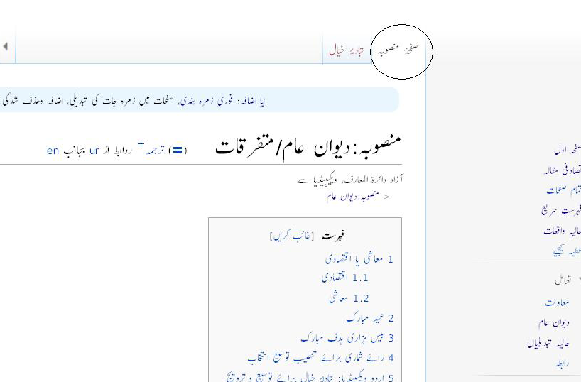 for arabic wiki talk page